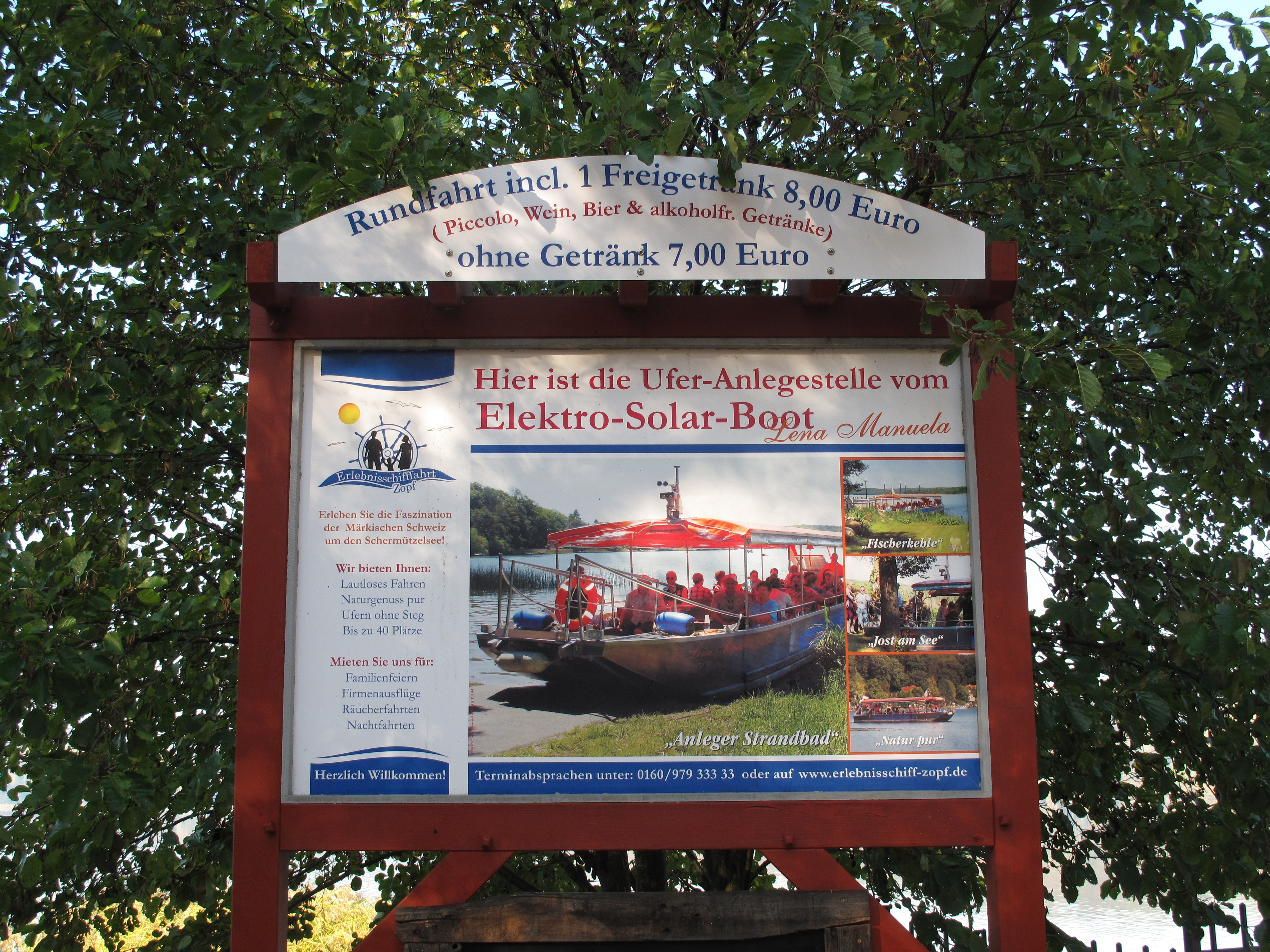 Information board at the landing stage of the solar boat „Lena Manuela“ at the eastern shore of the Schermützelsee. The Schermützelsee is a lake in Buckow, District Märkisch-Oderland, Brandenburg, Germany. The lake covers 137 hectare and is the largest water in the hill country „Märkische Schweiz“ and in the Märkische Schweiz Nature Park.